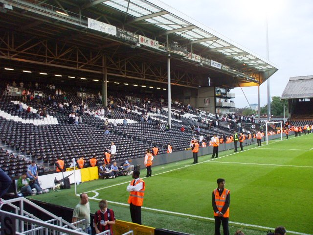 The Hammersmith End - Fulham FC, SW6, near to Fulham, Hammersmith And Fulham, Great Britain. The 'Hammersmith End' stand of Fulham Football Club.